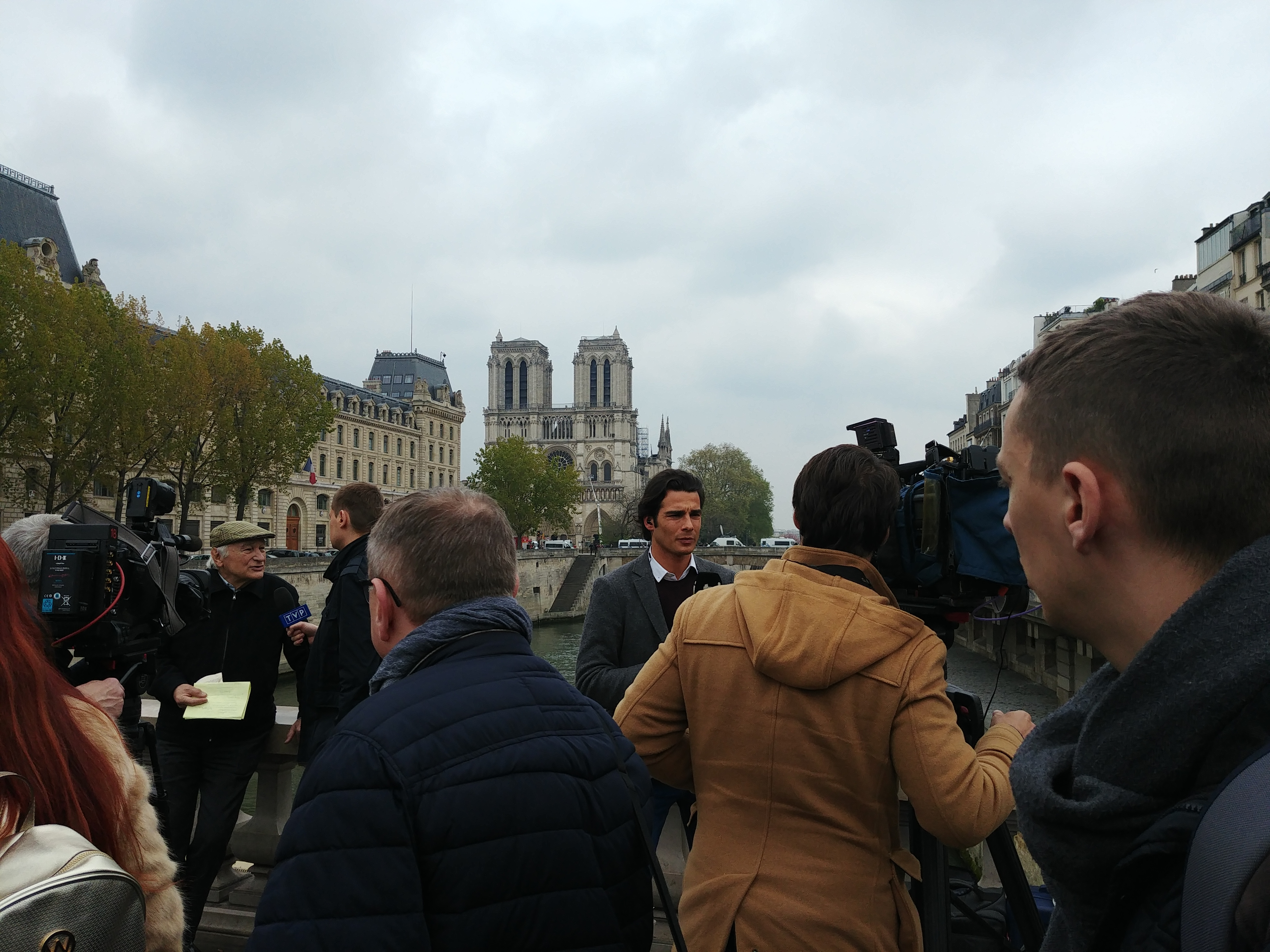 Worldwide media in front of Notre-Dame de Paris on the morning after the 15 April 2019 fire